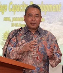 Minister Eko Putro Sandjojo at Indonesia Japan Local Administration Seminar